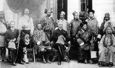 Visit to Calcutta: A group picture taken at Hastings House, Kolkata, during the visit in 1906 of Ugyen Wangchuck, the Trongsa Penlop of Bhutan, and Thutop Namgyel, the Chogyal of Sikkim. Front row, seated from left to right: D.E. Holland, Ugyen Wangchuck, John Claude White, Thutop Namgyel and his consort Yeshe Drolma. Standing from left to right: Bhutanese guard, Capt. Henry Hyslop, Ugyen Dorje, Lobsang Choden, Jerung Dewan, Burmiak Kazi, Bhutanese guard, Sikkimese guard. Credits Photo by unidentified photographer. Print from Fondation Alexandra David Neel, Digne.